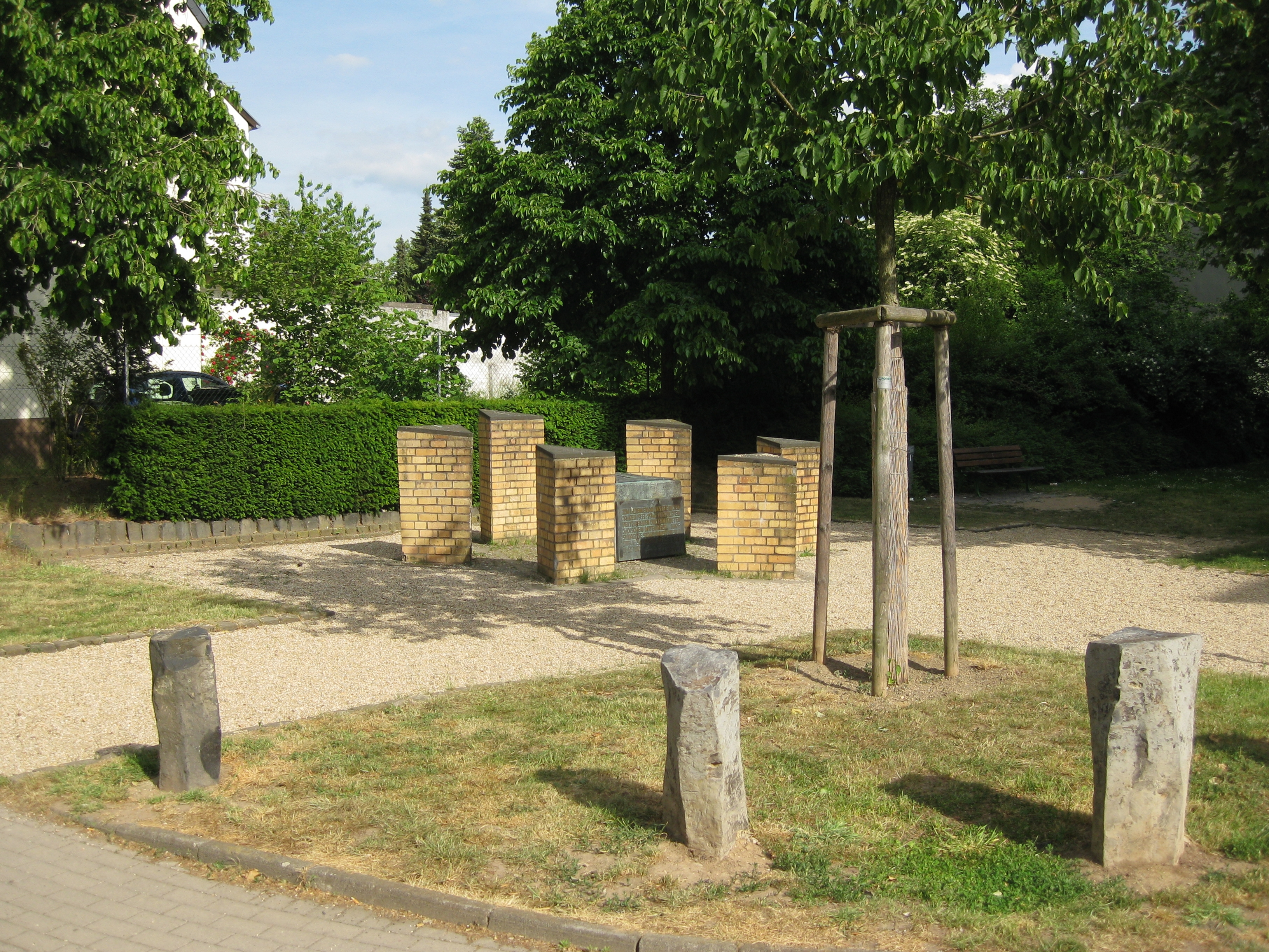 Germany, North Rhine-Westphalia, Bonn-Beuel: Memorial of the former synagogue on the areal (intersection Siegfried-Leopold and Friedrich-Friesen-Straße)